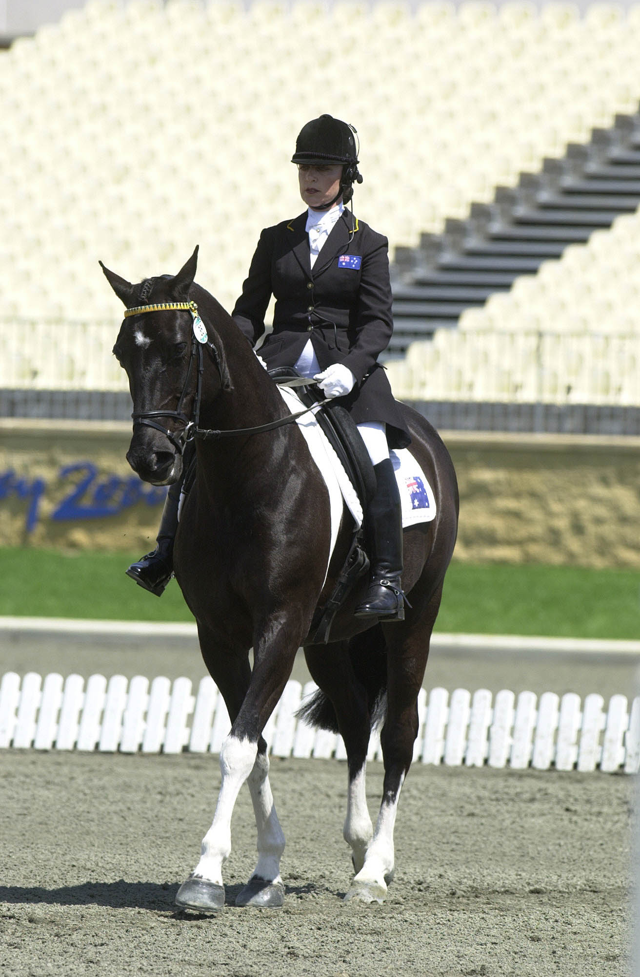 Action shot of Australian equestrian Julie Higgins during 2000 Sydney Paralympic Games Individual dressage Grade 3 event – for which she won gold